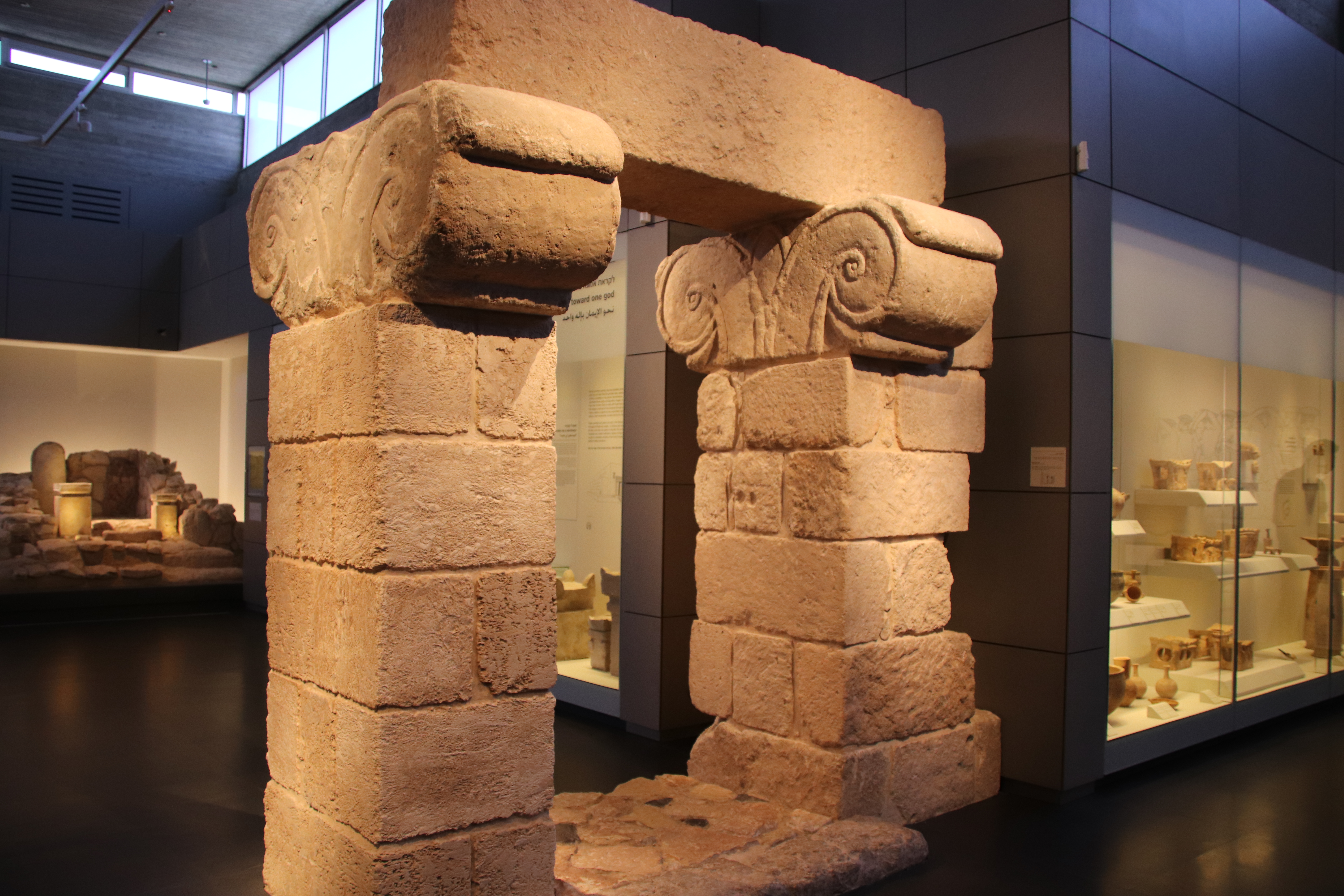 Israel Museum, Jerusalem, Israel. Complete indexed photo collection at